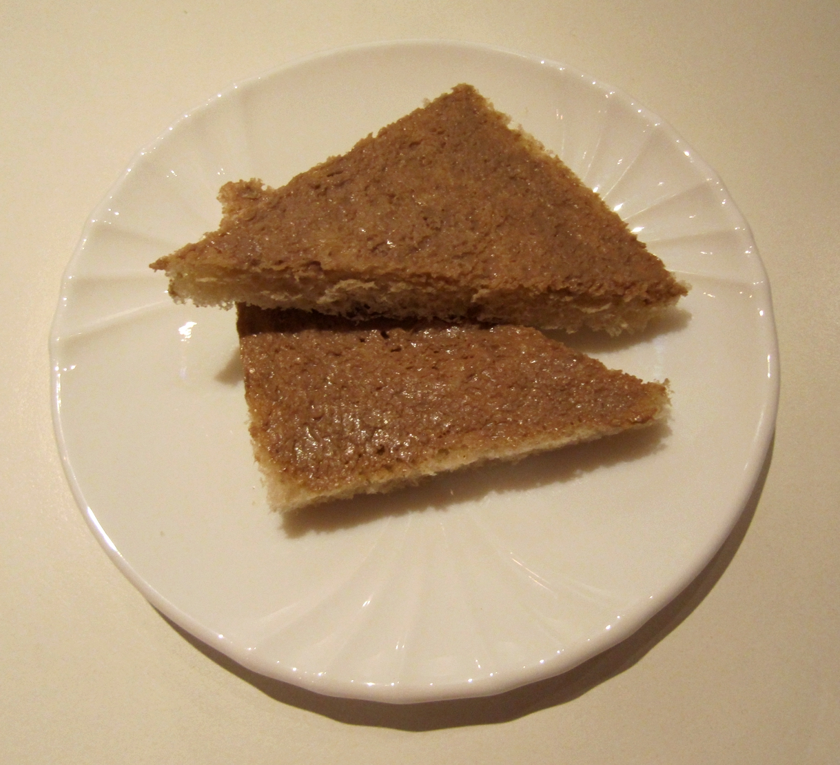 Gentleman’s Relish